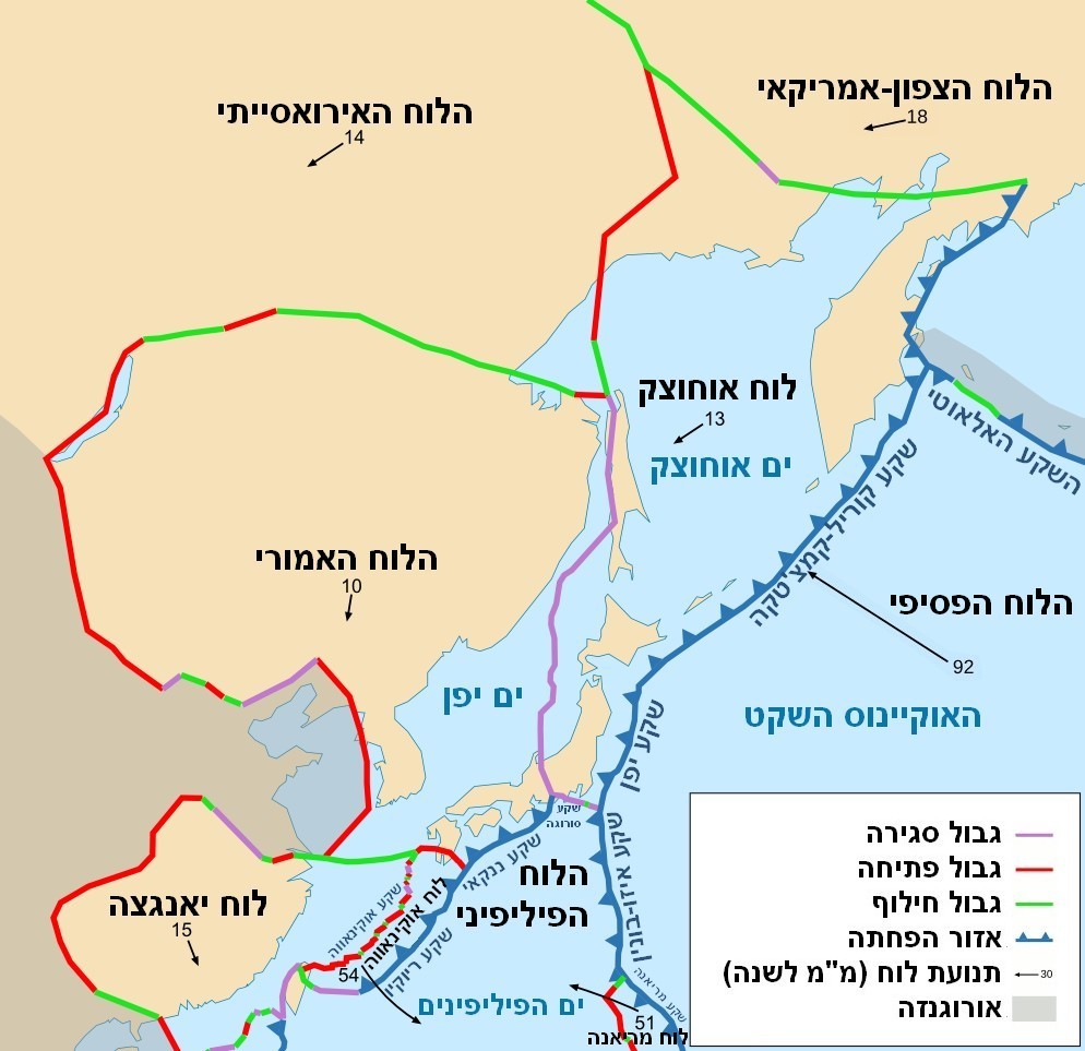 Area around Okhotsk plate.